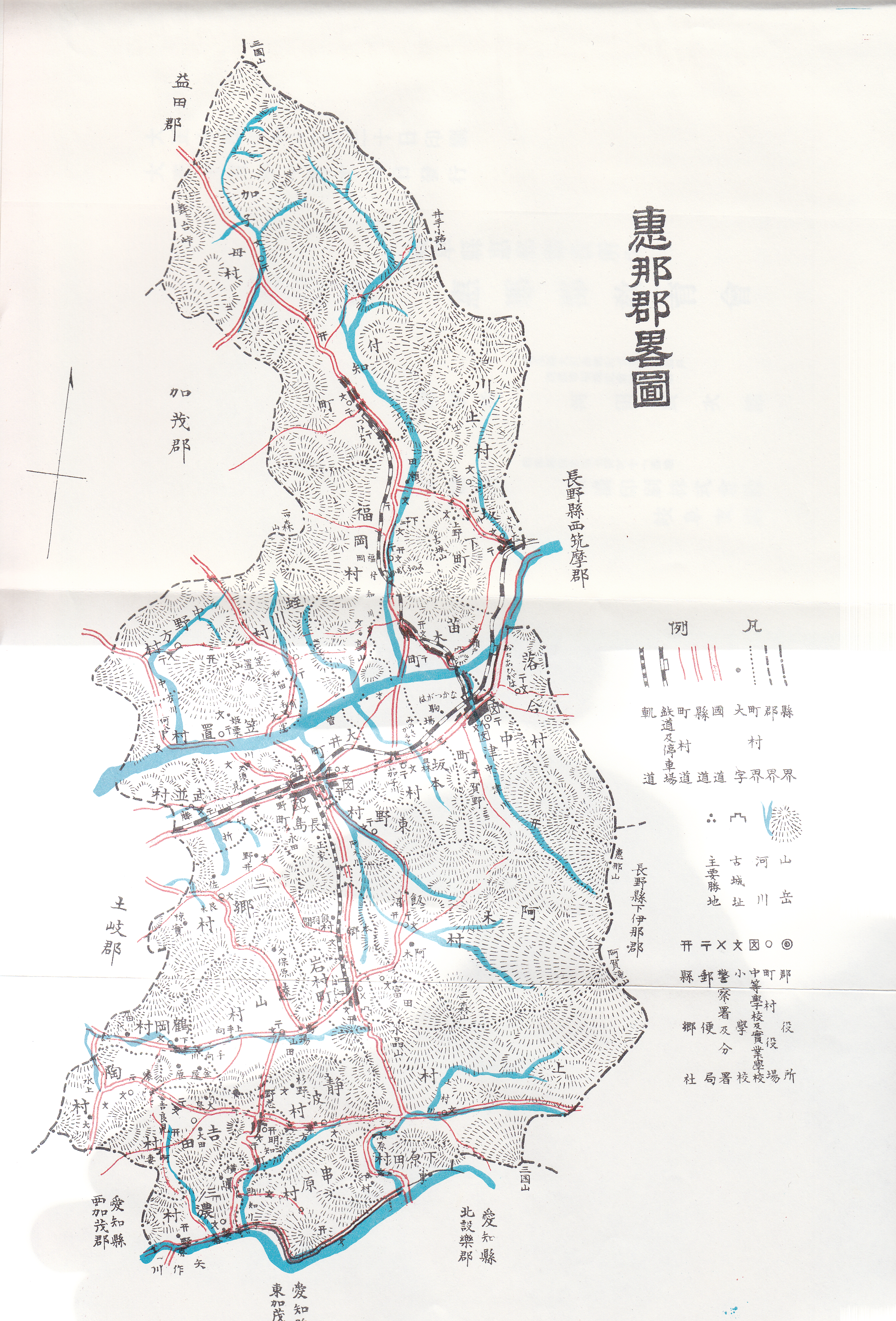 Ena-area map with Enagunshi.